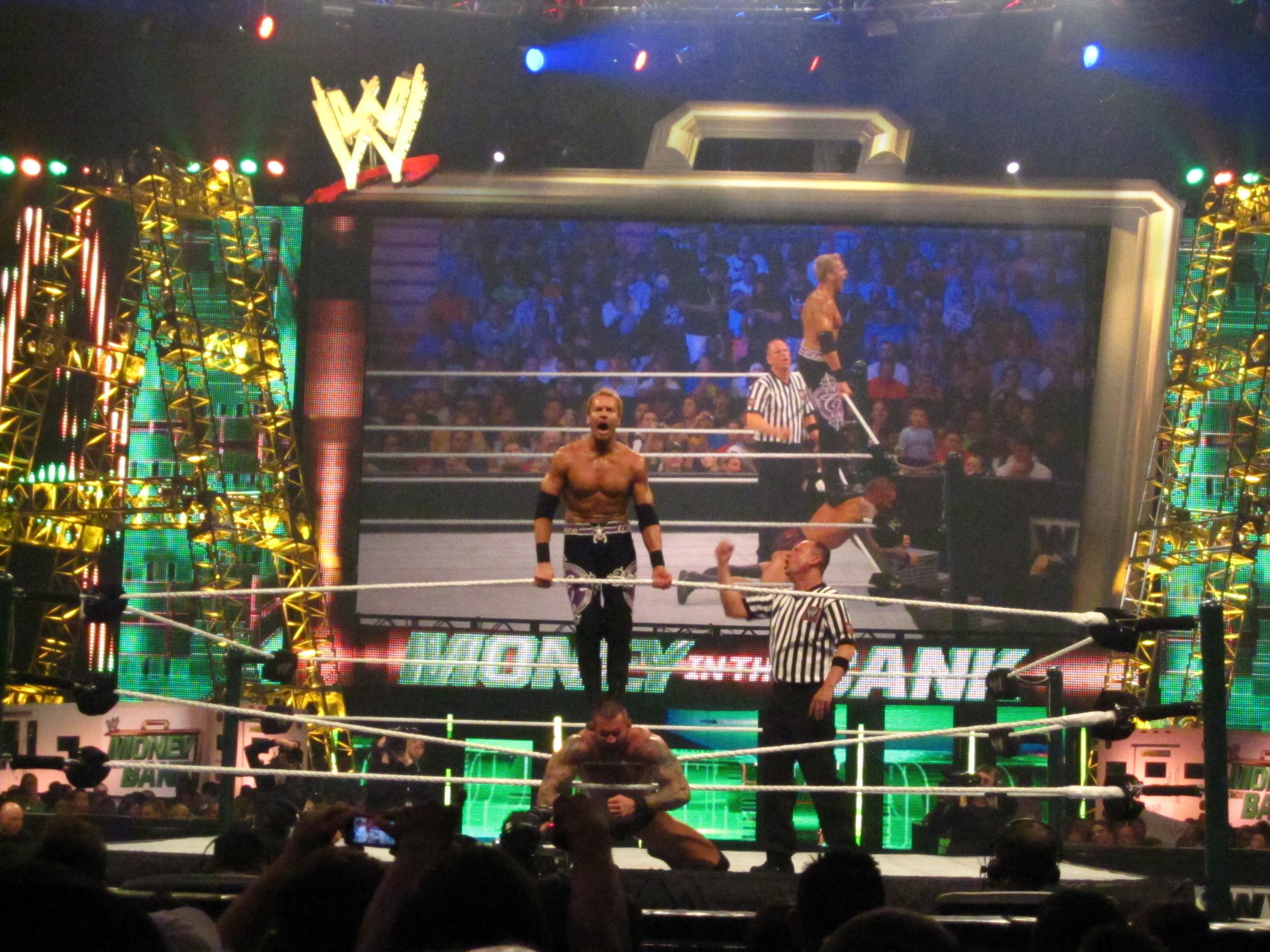 During the Money the Bank pay-per-view in Rosemont, Illinois on 17 July 2011, Christian chokes Randy Orton on the ring ropes as they wrestled for the World Heavyweight Championship.